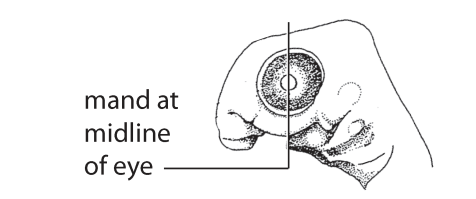 Standard Event System character depiction